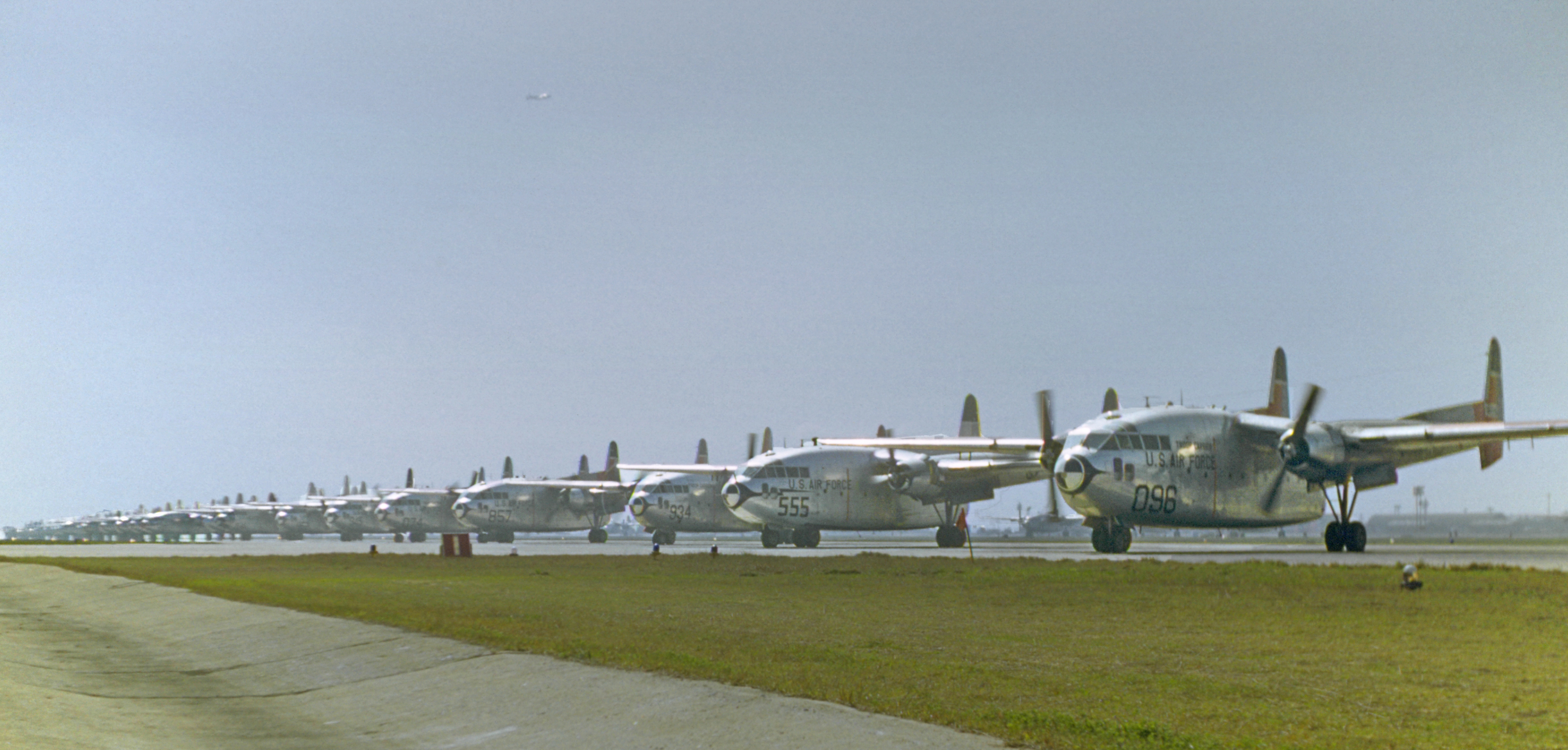 Three C-119 squadrons assigned to the 314th Troop Carrier Group doing run-up checks prior to taking off for a formation flyover. The near planes are from the 61st Troop Carrier Squadron, "Green Hornets".